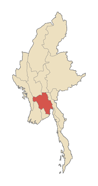 Bago division in Myanmar